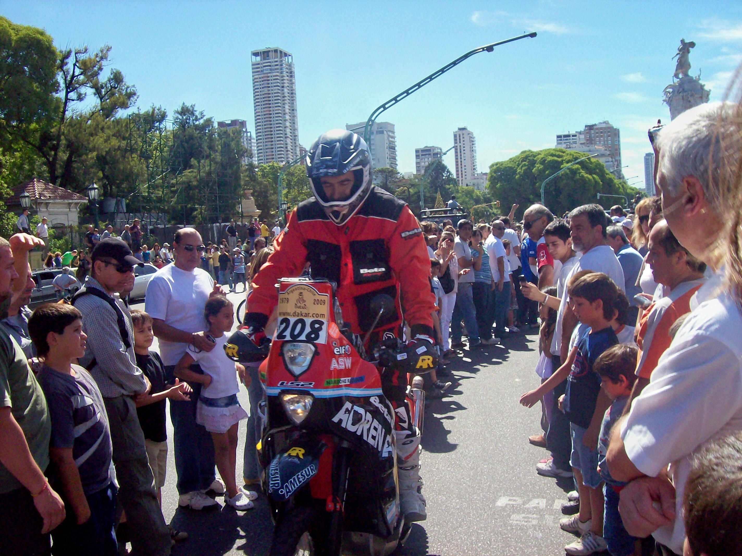 Motorcycle. Fernando Cid de La Paz, argentine, Dakar Rally 2009, Buenos Aires Argentina